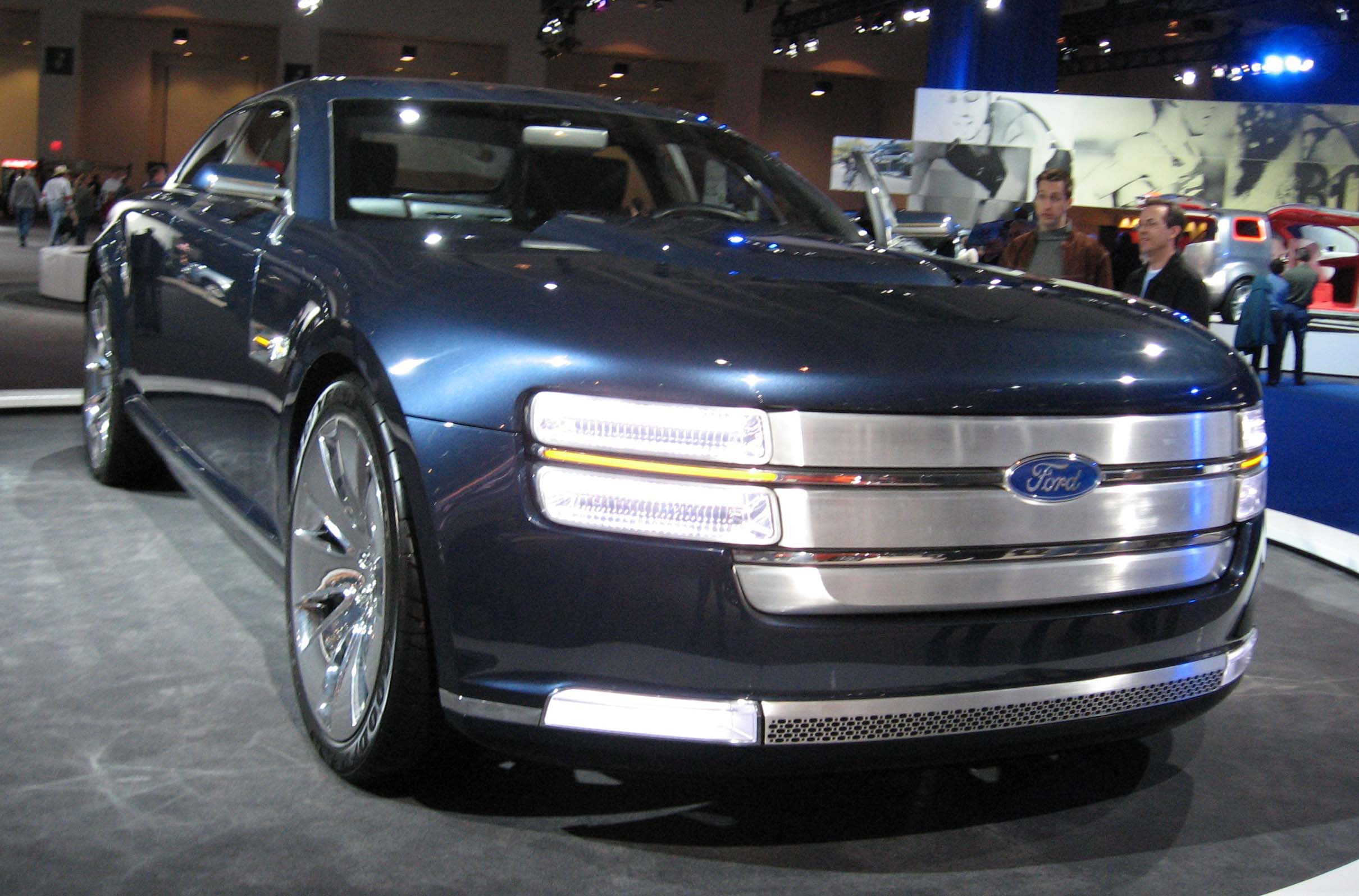 Ford Interceptor photographed at the Washington Auto Show.